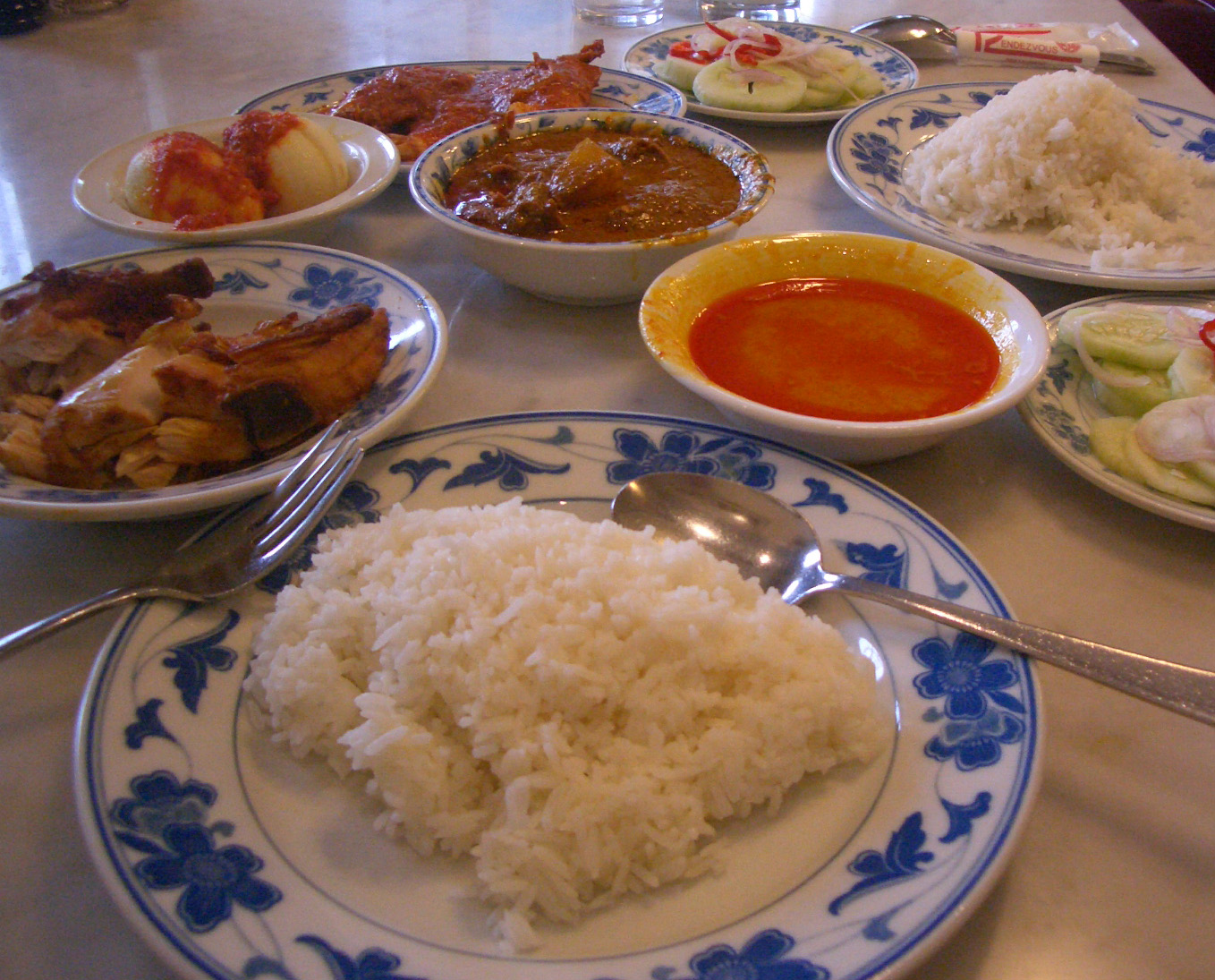 Nasi padang in Singapore.